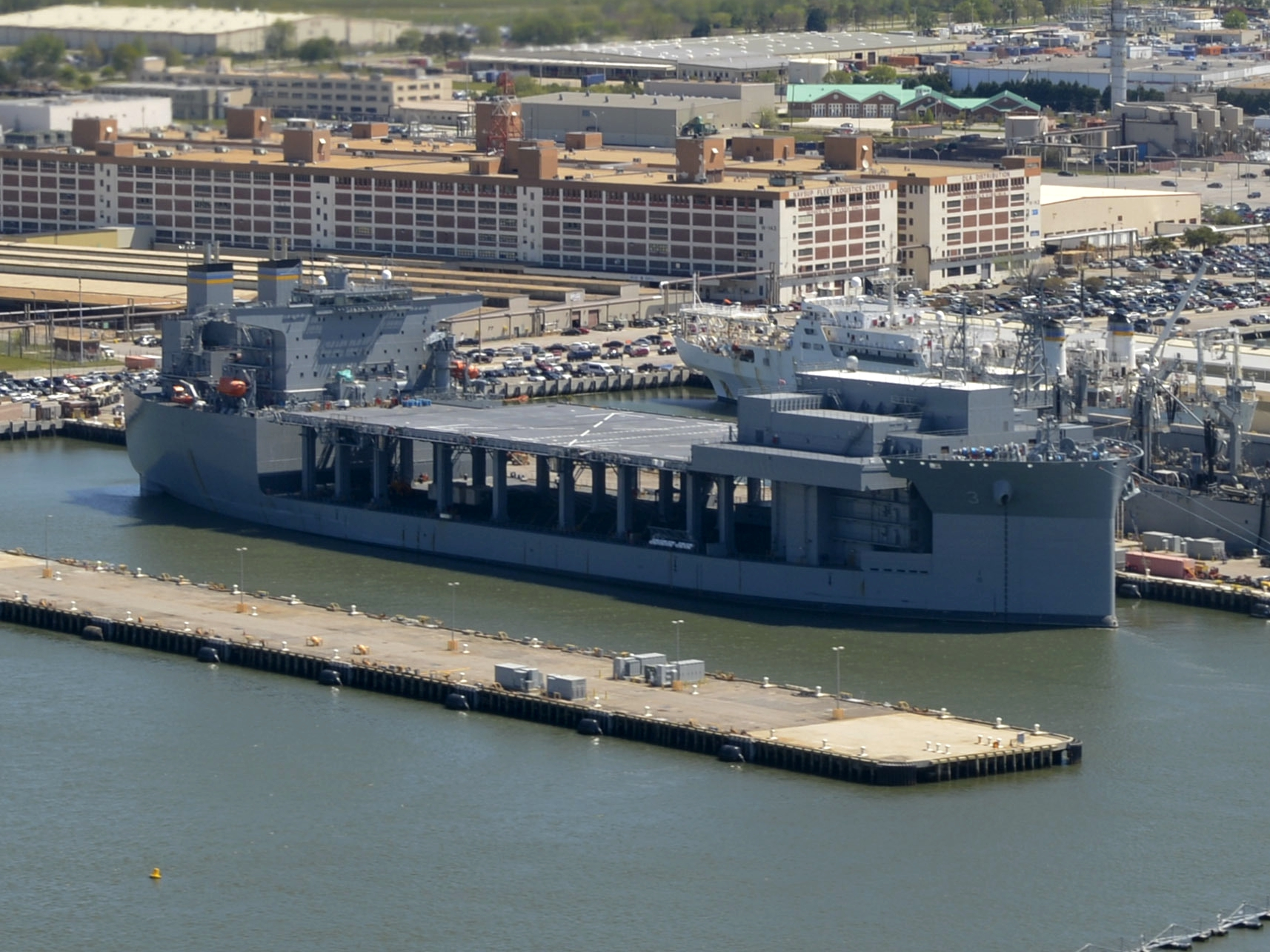 The U.S. Military Sealift Command Expeditionary Mobile Base USNS Lewis B. Puller (T-ESB-3) at Naval Station Norfolk, Virginia (USA).